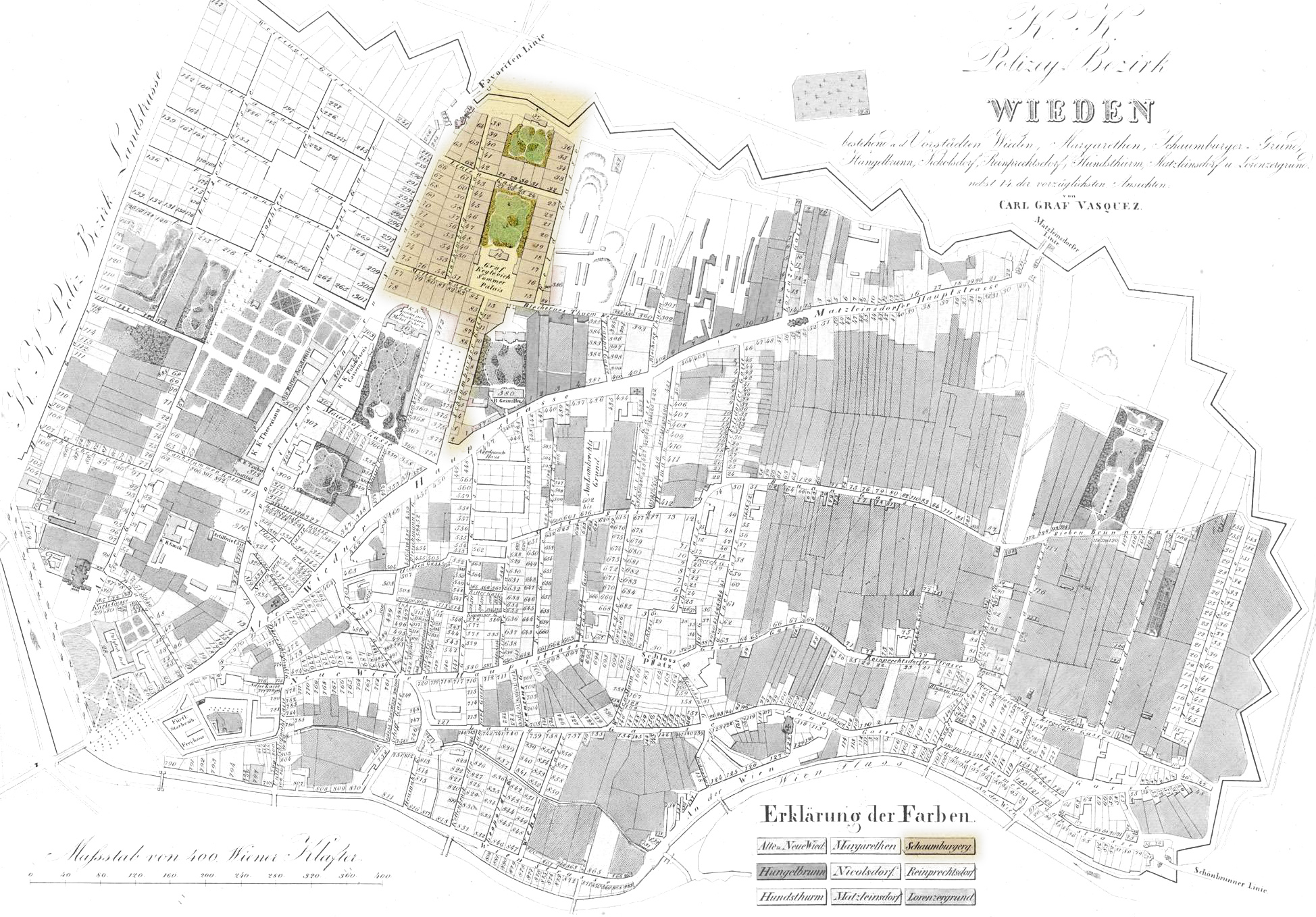 Map of Vienna / Schaumburgergrund, approx. 1830